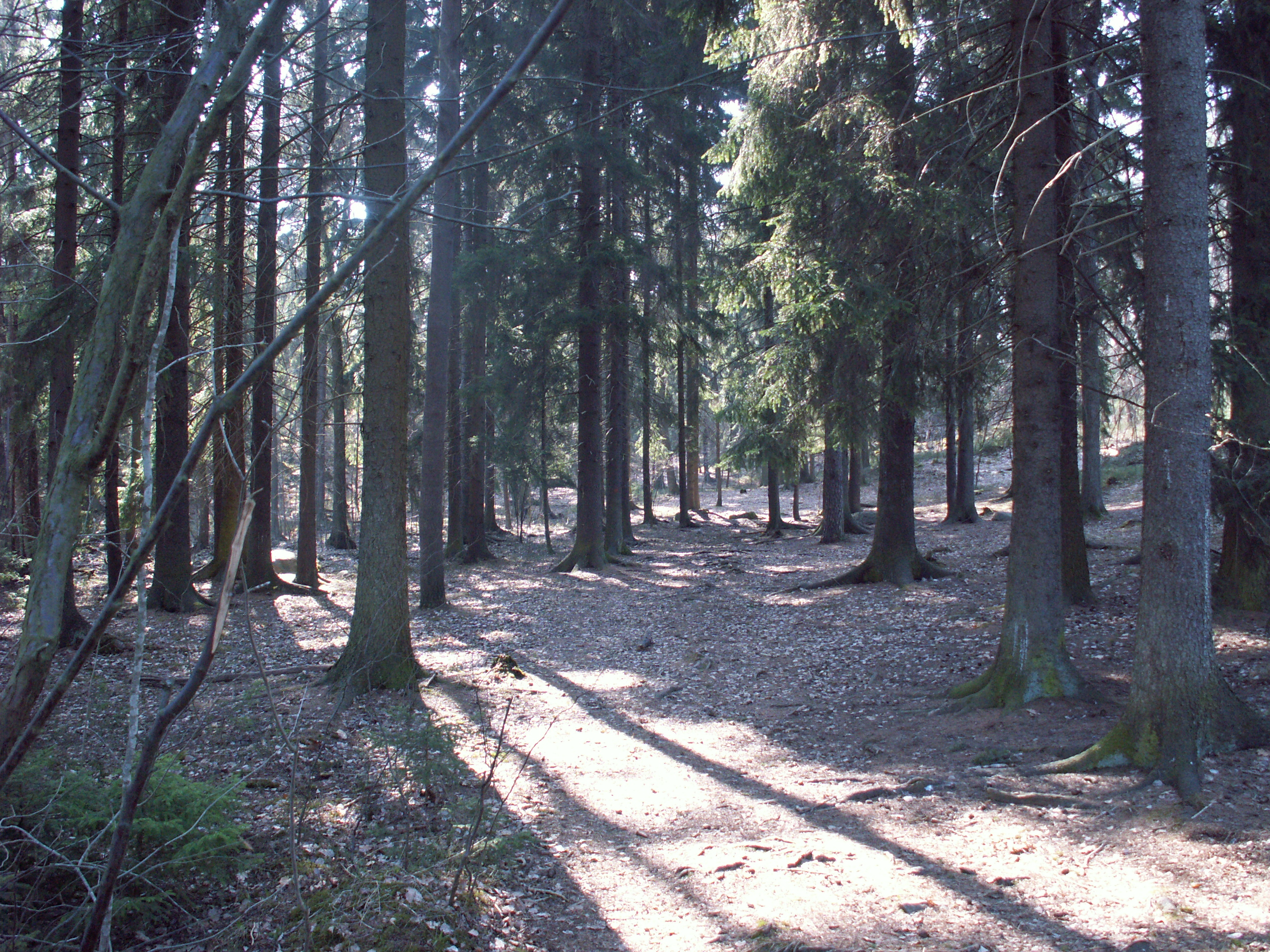 The Älvsjöskogen forest.